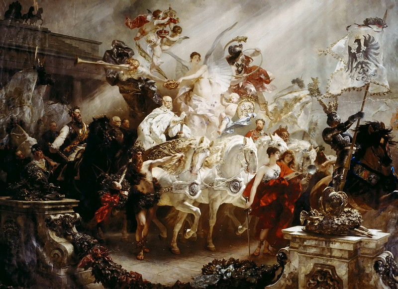 Kaiser Wilhelm I triumphantly returning through the Brandenburg gates after victory in 1871.